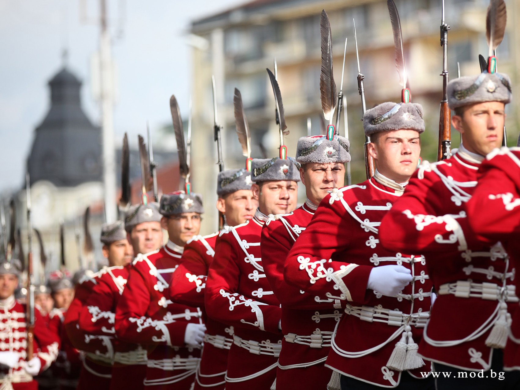 National Guards unit parading on the 2018 Army Day